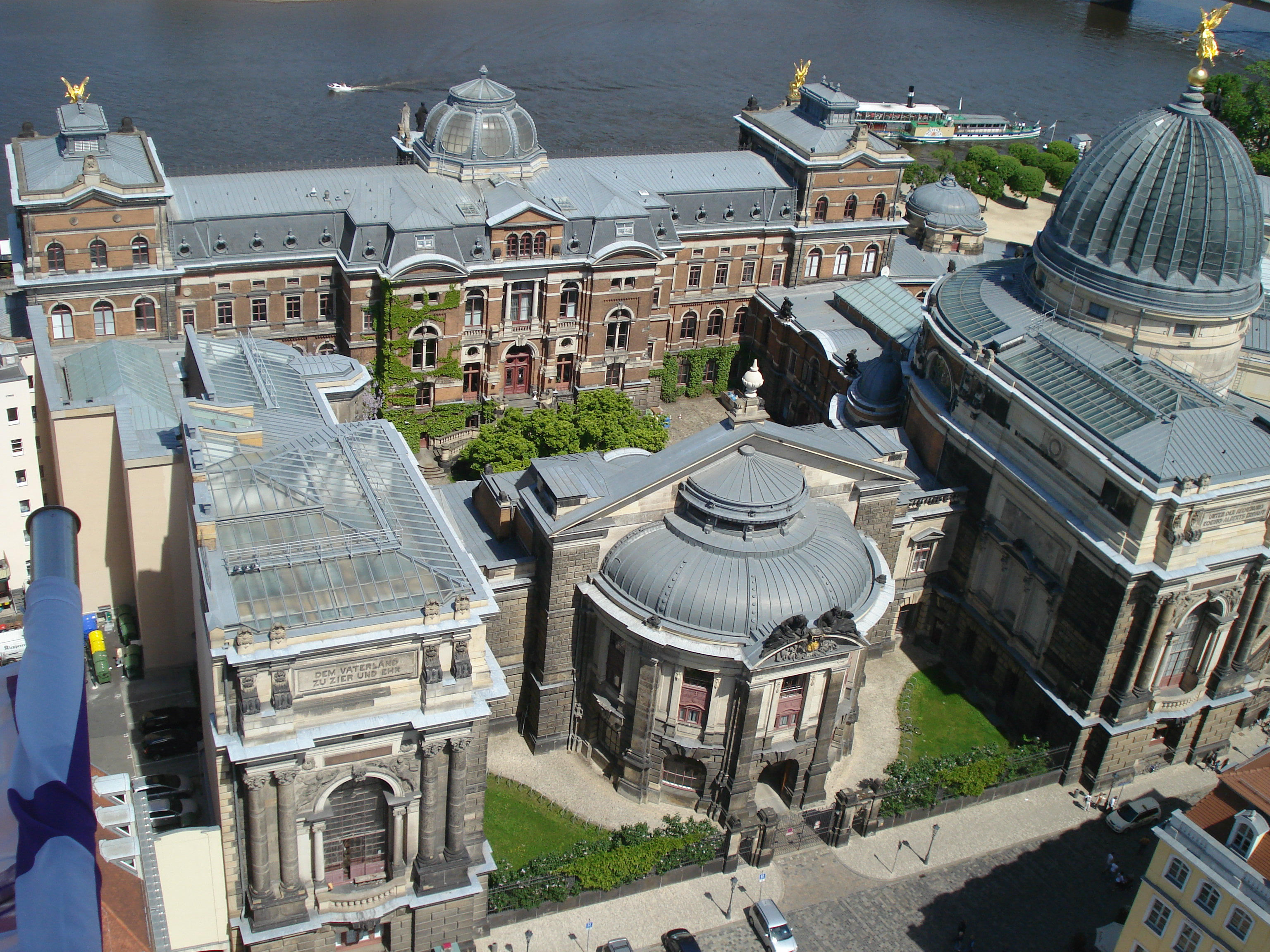 The terrain of Dresden